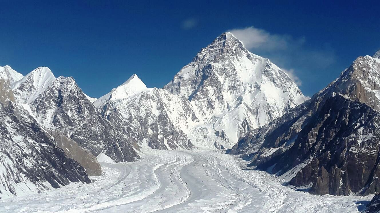 Skardu is located in the 10 kilometers (6 miles) wide by 40 kilometers (25 miles) long Skardu Valley, at the confluence of the Indus and the Shigar River at an altitude of nearly 2,500 meters.